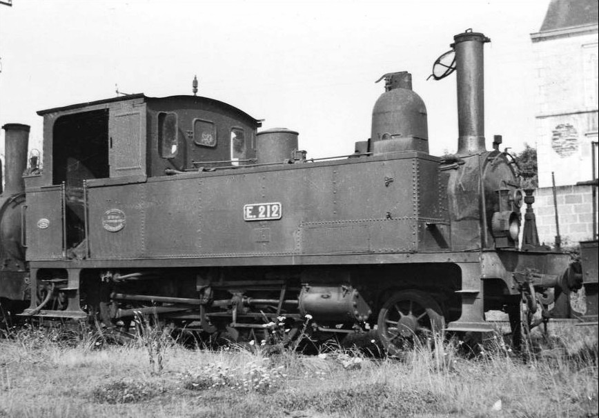 Réseau Breton - Loco 120 T n° E 212 au dépôt de Carhaix